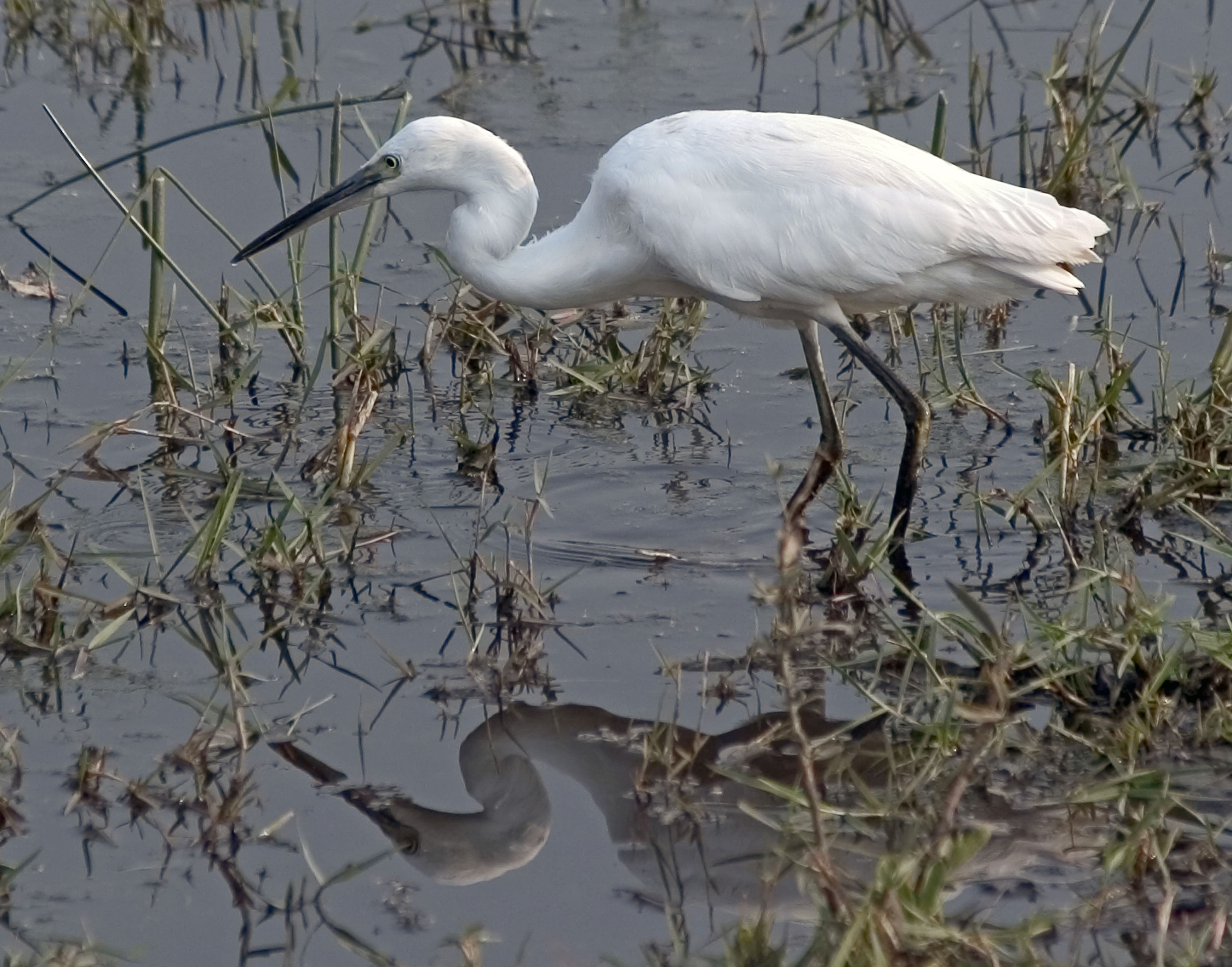 This photograph of a Little Egret was taken in the Okovango Delta of Botswana, Africa.